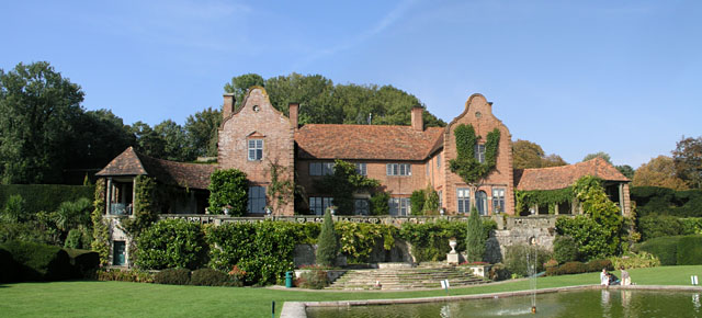 Port Lympne Designed for Sir Philip Sassoon by Baker and Wilmott in 1912 the house was originally called Belcaire but was renamed with reference to the area's Roman name of Portus Lemanis. For more information on the history of the house see the DiCamillo Companion to British and Irish Country Houses